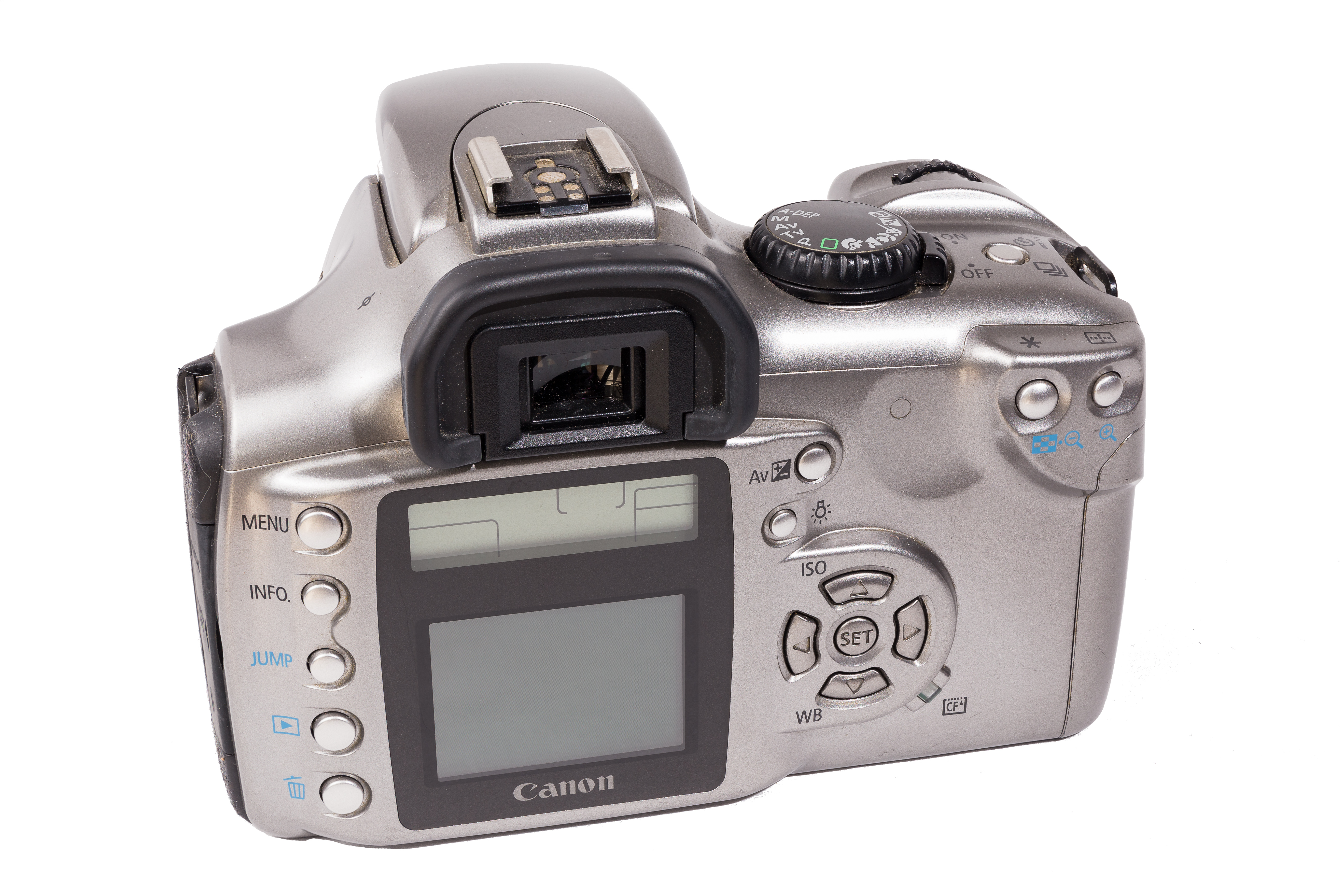 The Canon EOS 300D is a digital single-lens reflex camera, produced by Canon from 2003 until 2005 as part of their EOS system.